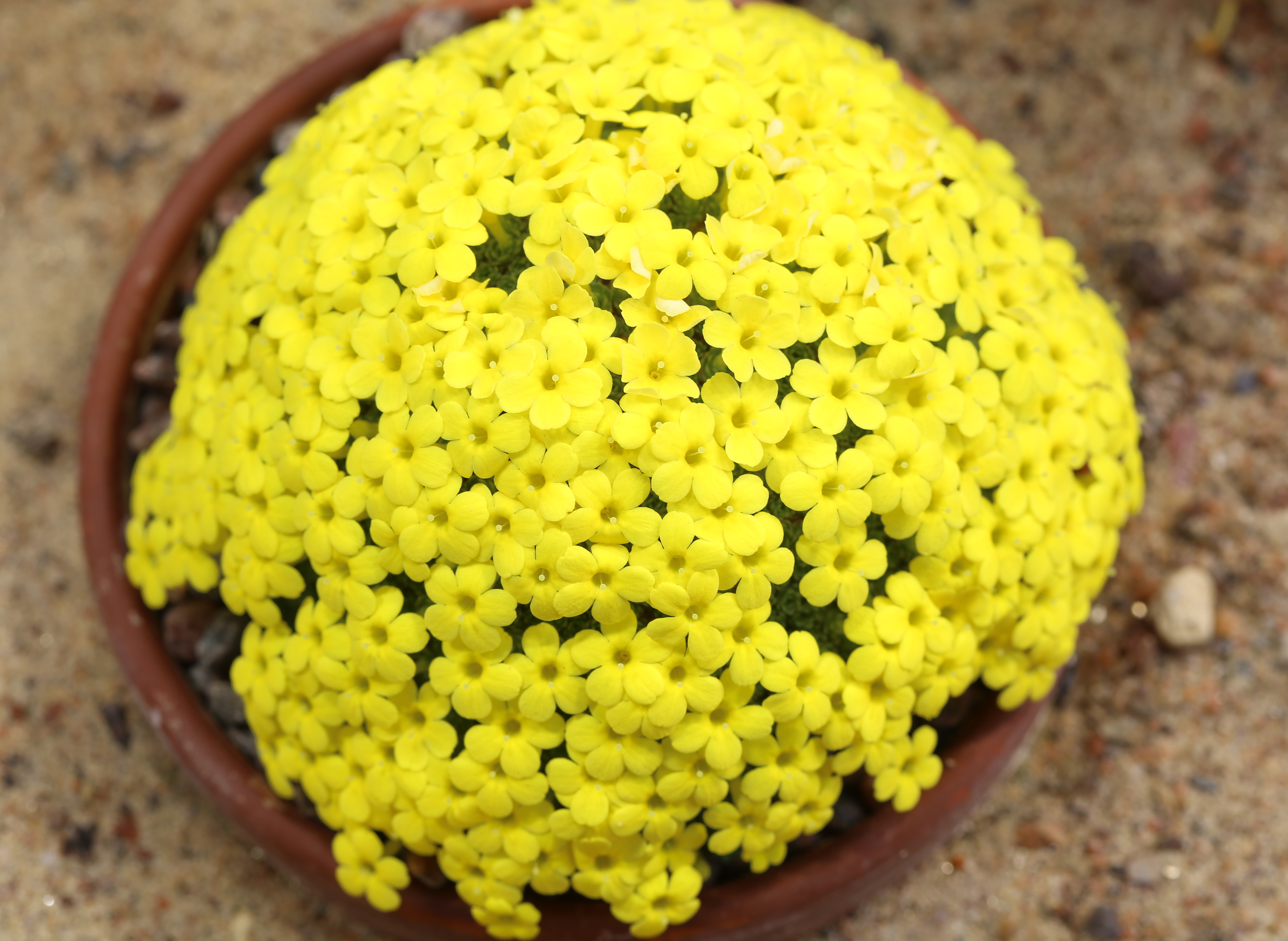 Dionysia michauxii 'Klon 9' at Gothenburg Botanical Garden 2015. Plant id: 1998-2603 s W -- Lidén; SLIZE 254